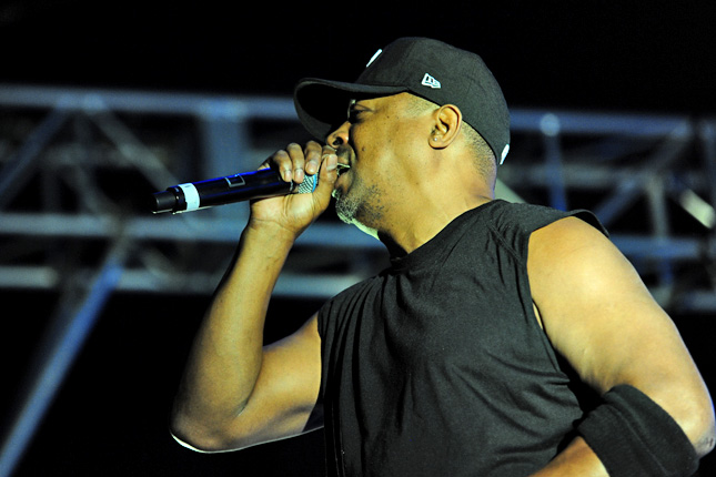 Southbound Festival 2011